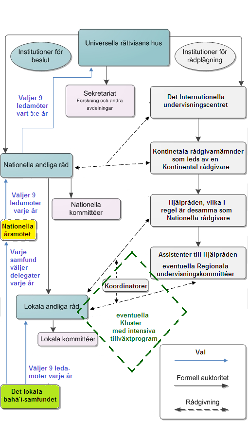 Baha'i Faith: Organization regarding elections and administrative system (Swedish).